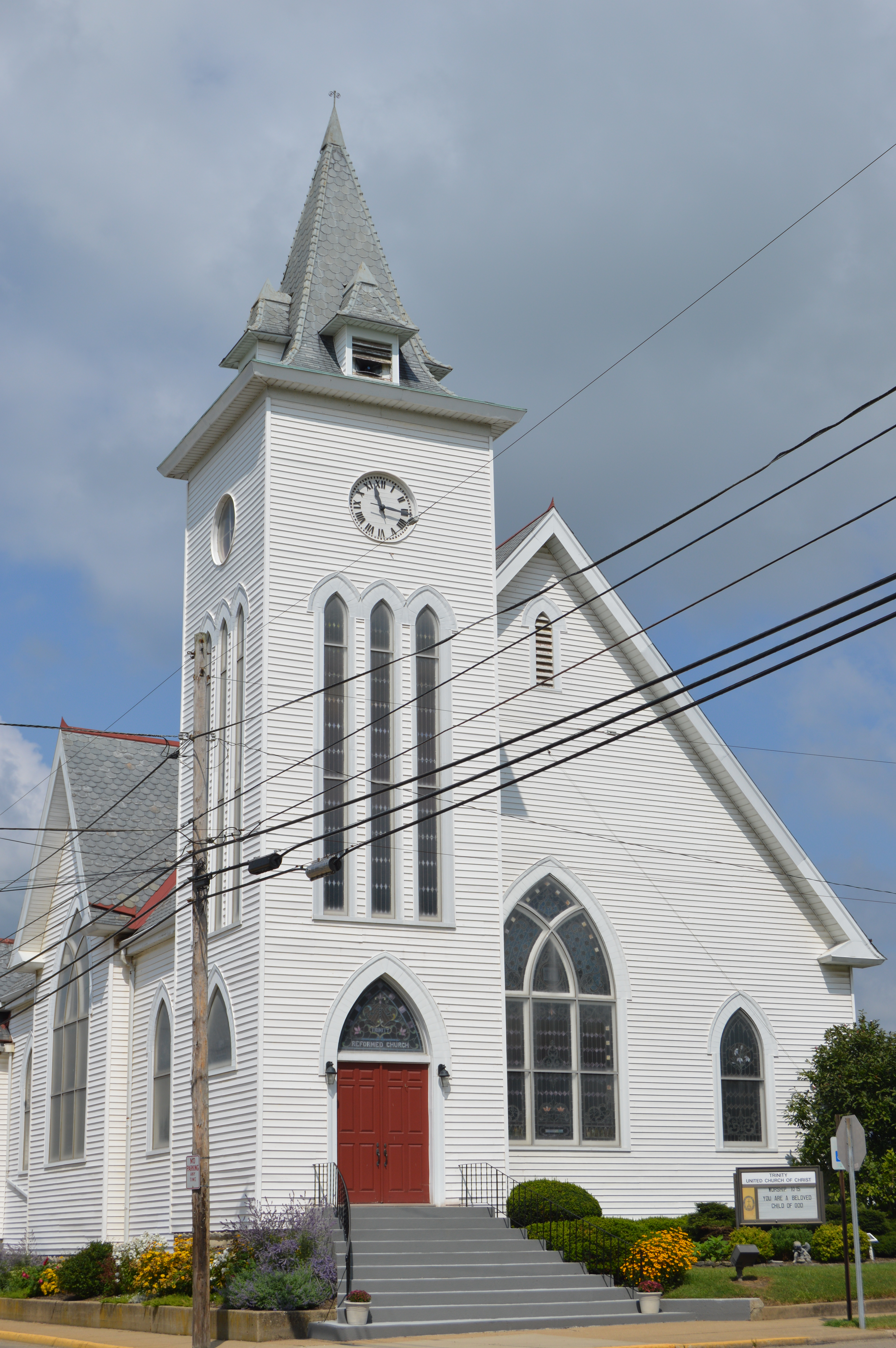 Front of the Trinity United Church of Christ, located at the junction of Market (State Route 256) and High Streets in Baltimore, Ohio, United States. It was built in 1899.